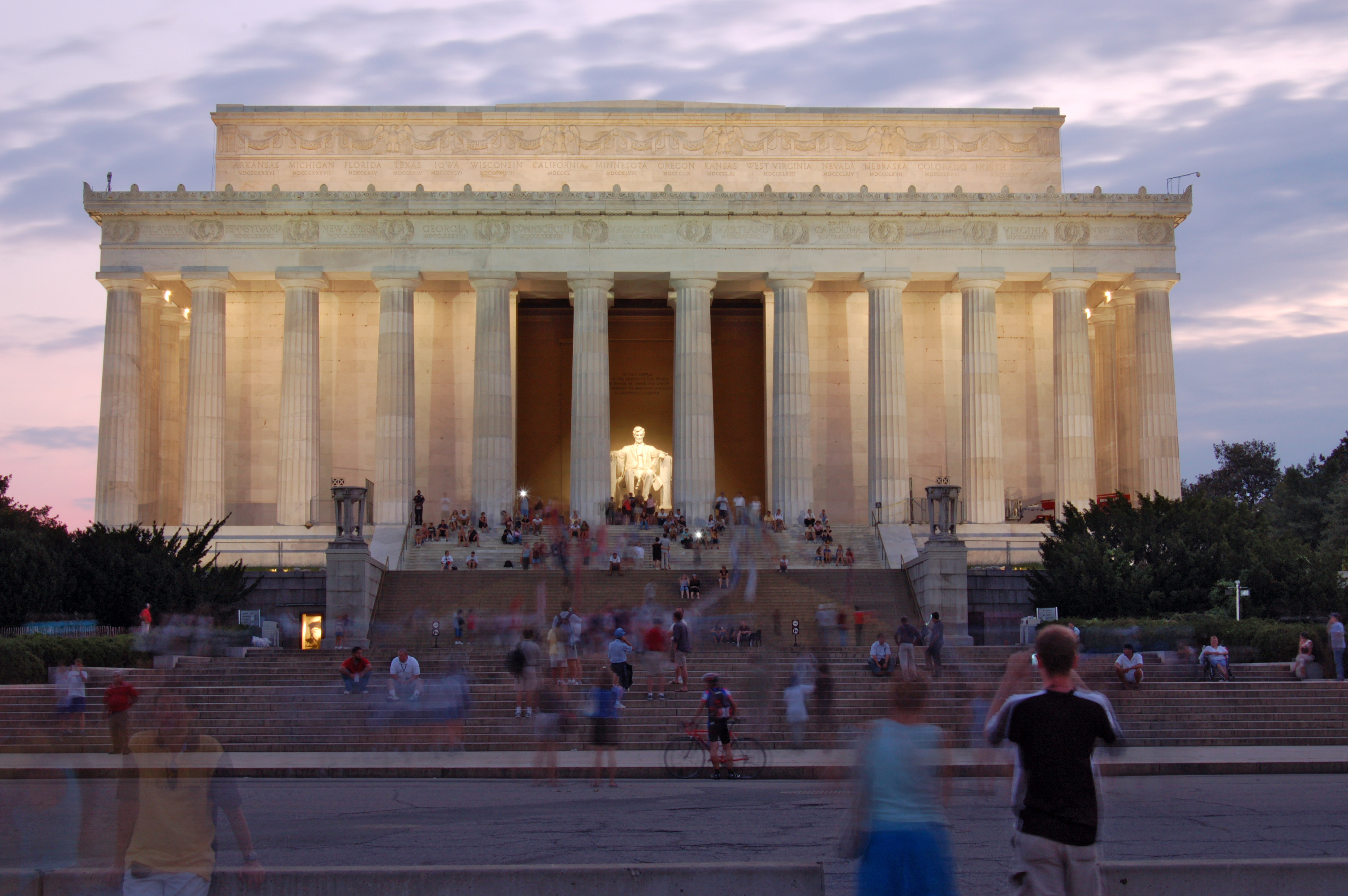 The Lincoln Memorial at dusk